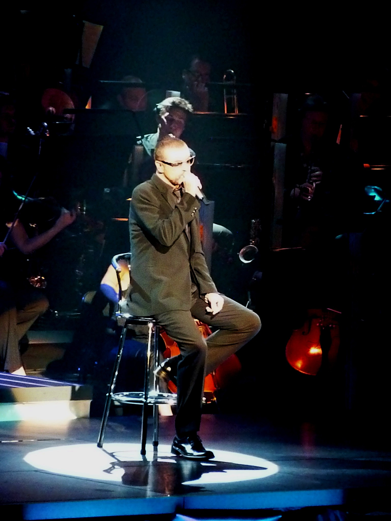 George Michael at the Palais Nikaia (Nice, France) in 2011, for Symphonica: The Orchestral Tour.